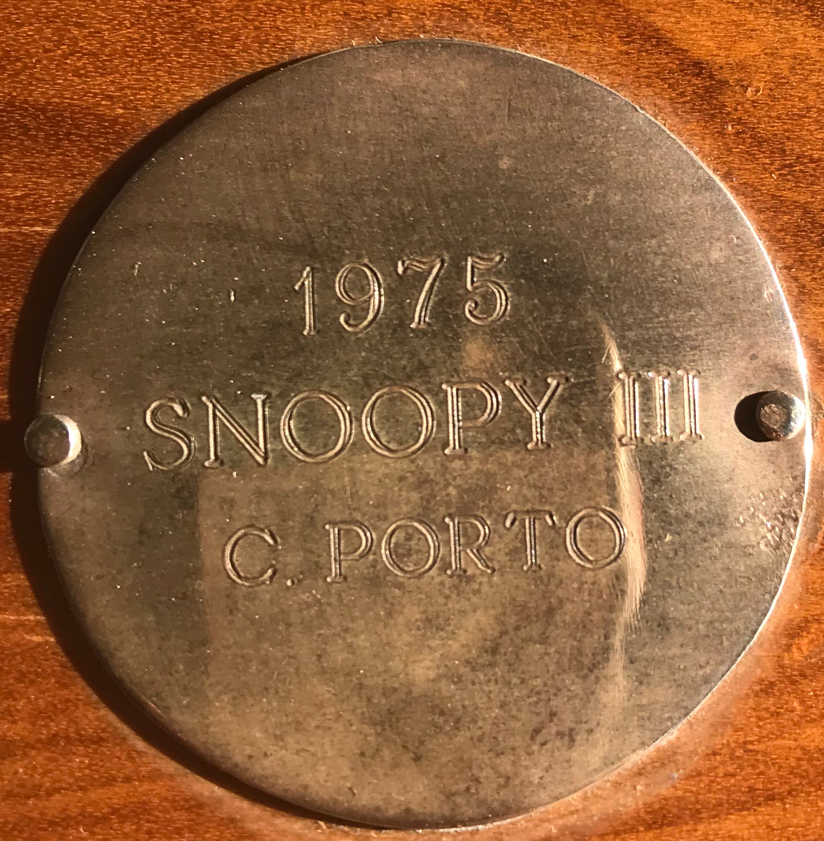 Patch on the Trophy